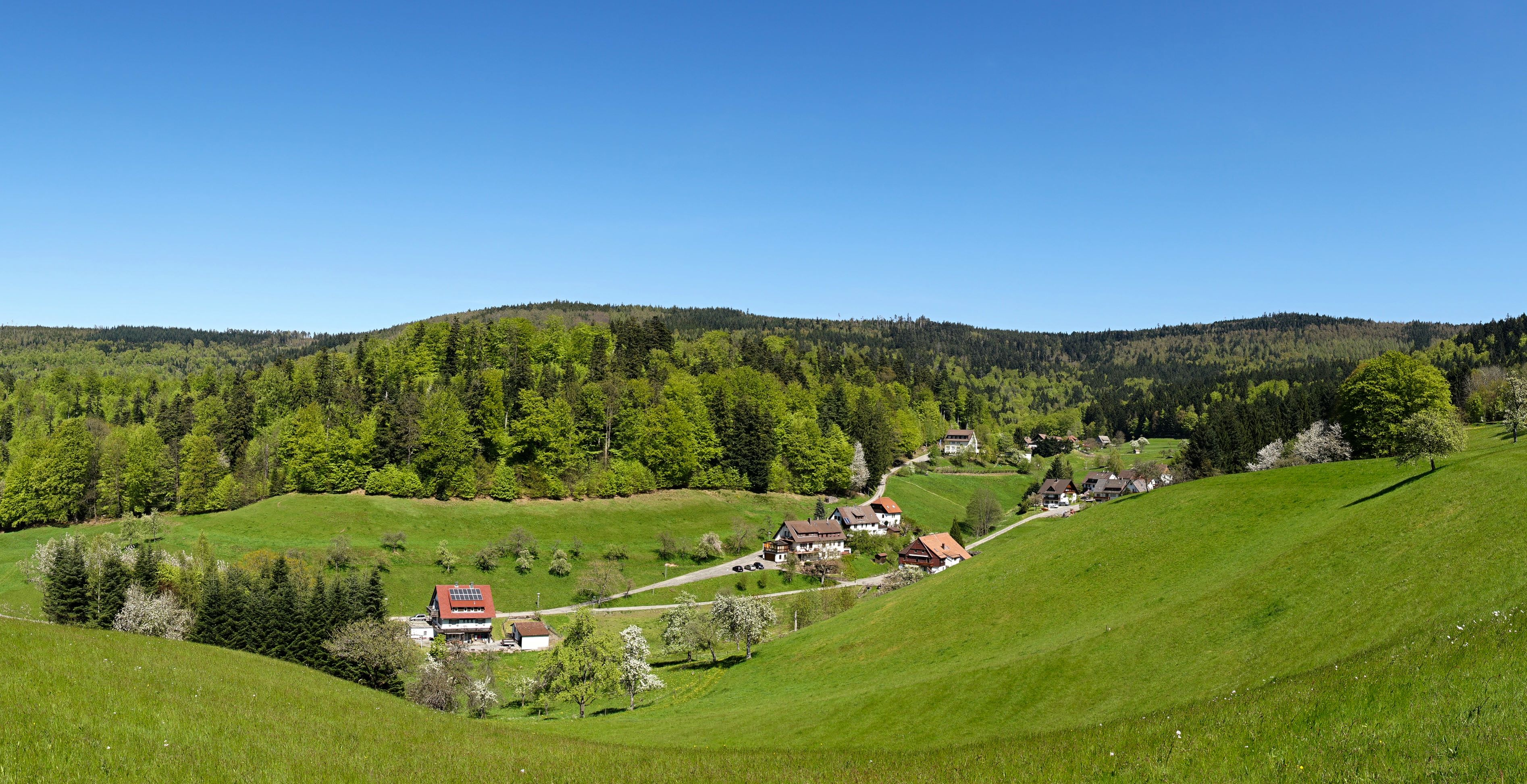 Meadow in Bad Herrenalb